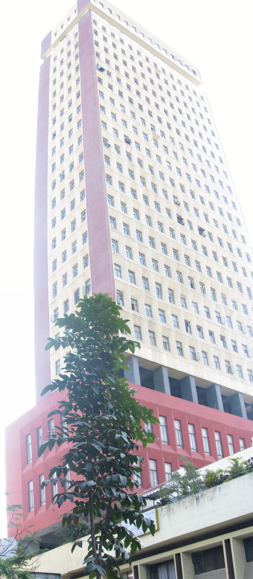 Bangalore MG road Utility Building.jpg